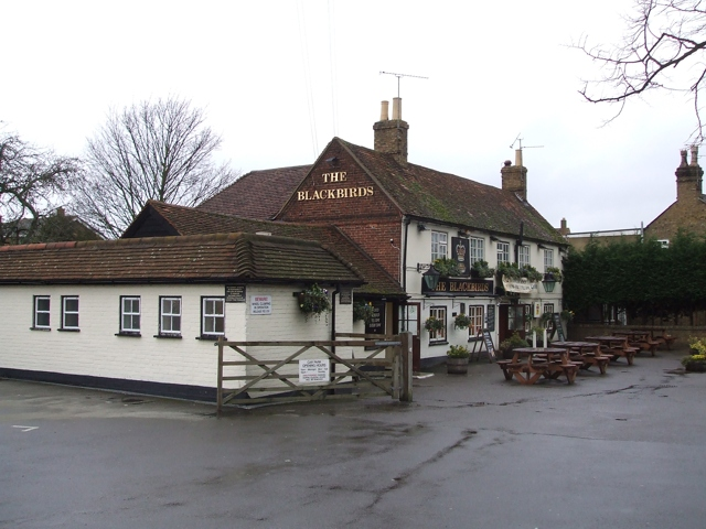 The Blackbirds P.H., Flitwick This pub is beside the main road through the northern part of Flitwick. The inn sign above the door shows a large crown hovering above a pie with three blackbirds peeping out ... alluding of course to the nursery rhyme "sing a song of sixpence".